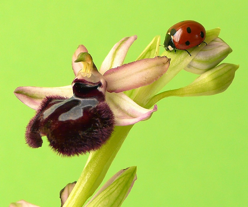 Ophrys sipontensis